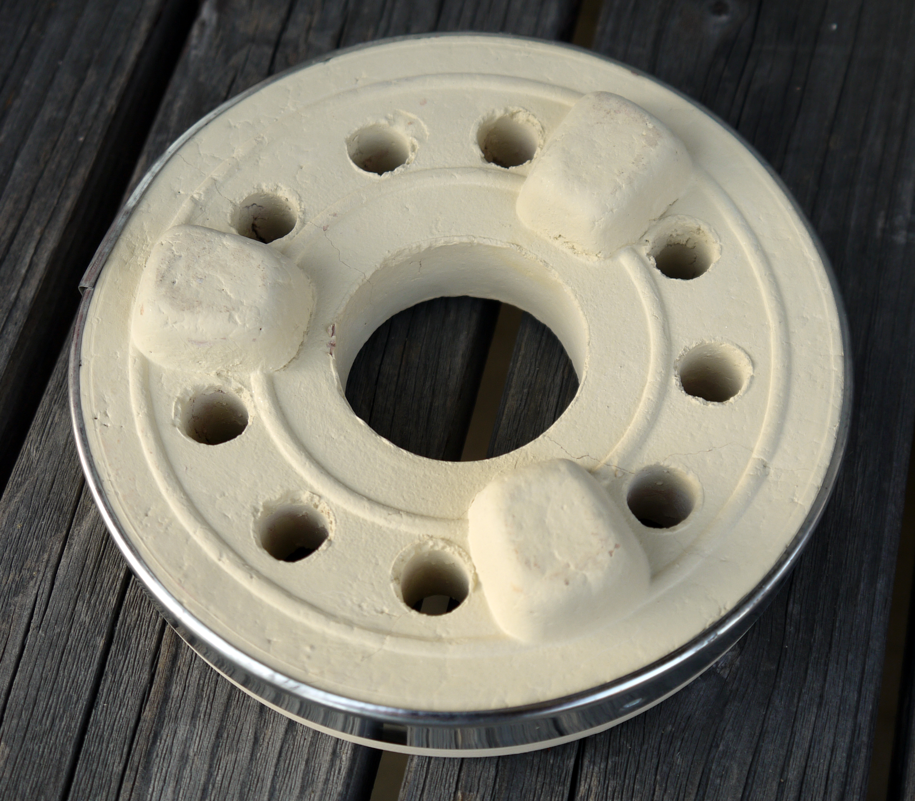 Japanese Rentan Portable Stove